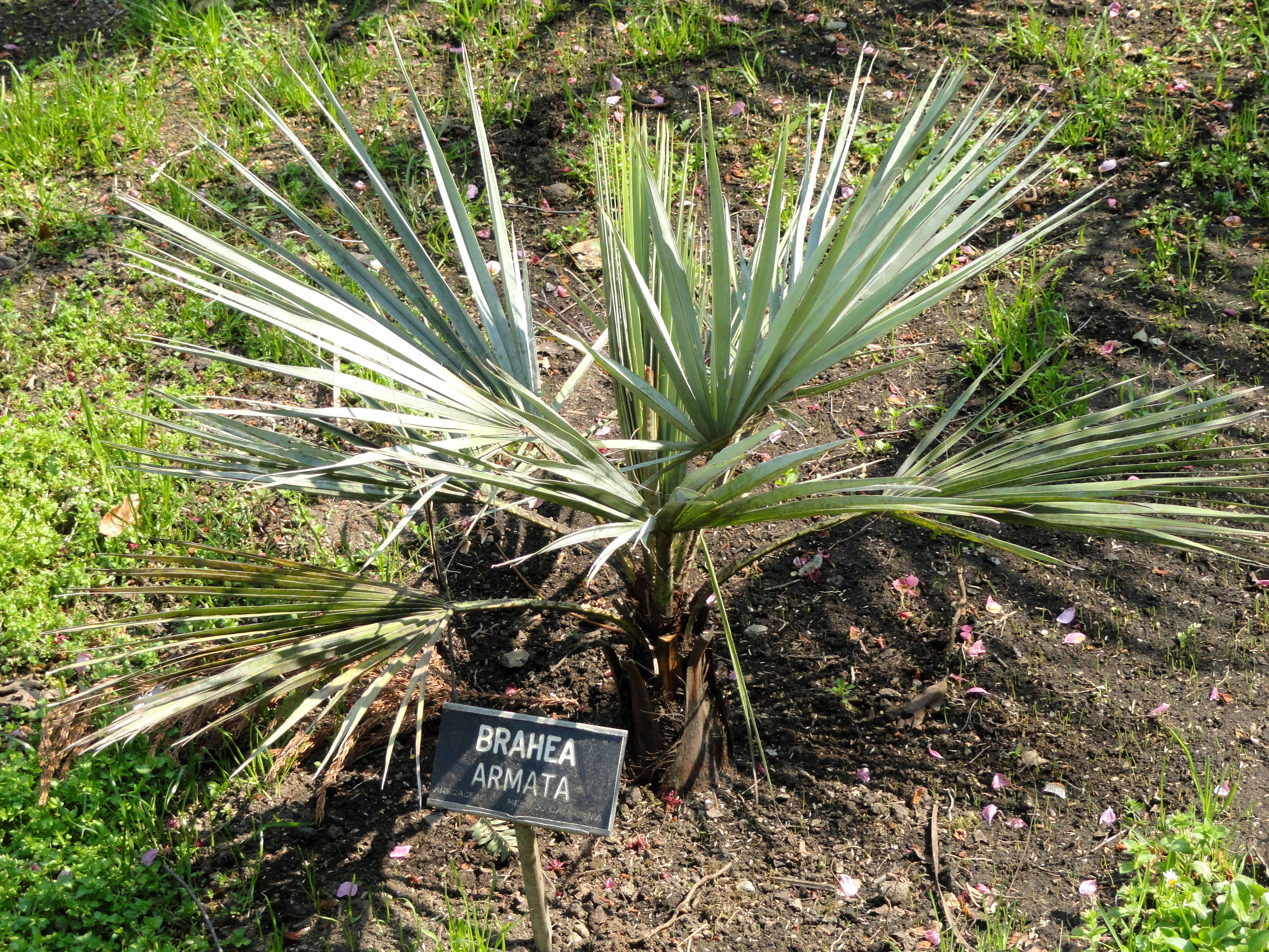 Brahea armata. Botanical specimen on the grounds of the Villa Taranto (Verbania), Lake Maggiore, Italy.